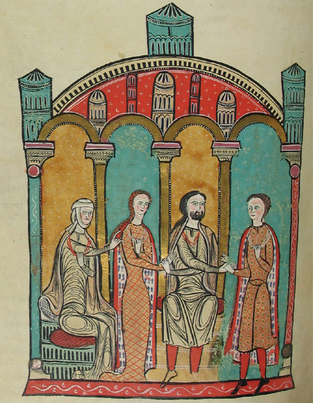 Mariage_of_Ermengard_of_Carcassonne_and_Gausfred_III_of_Roussillon